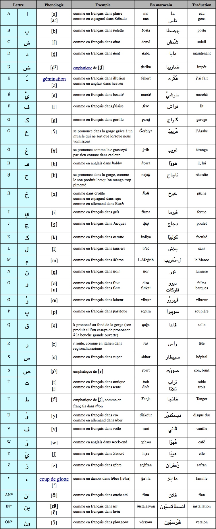 This table lists ans describes the latin and arabic alphabets (also their pronunciation) of the KtbDarija writing way of Moroccan language (French).